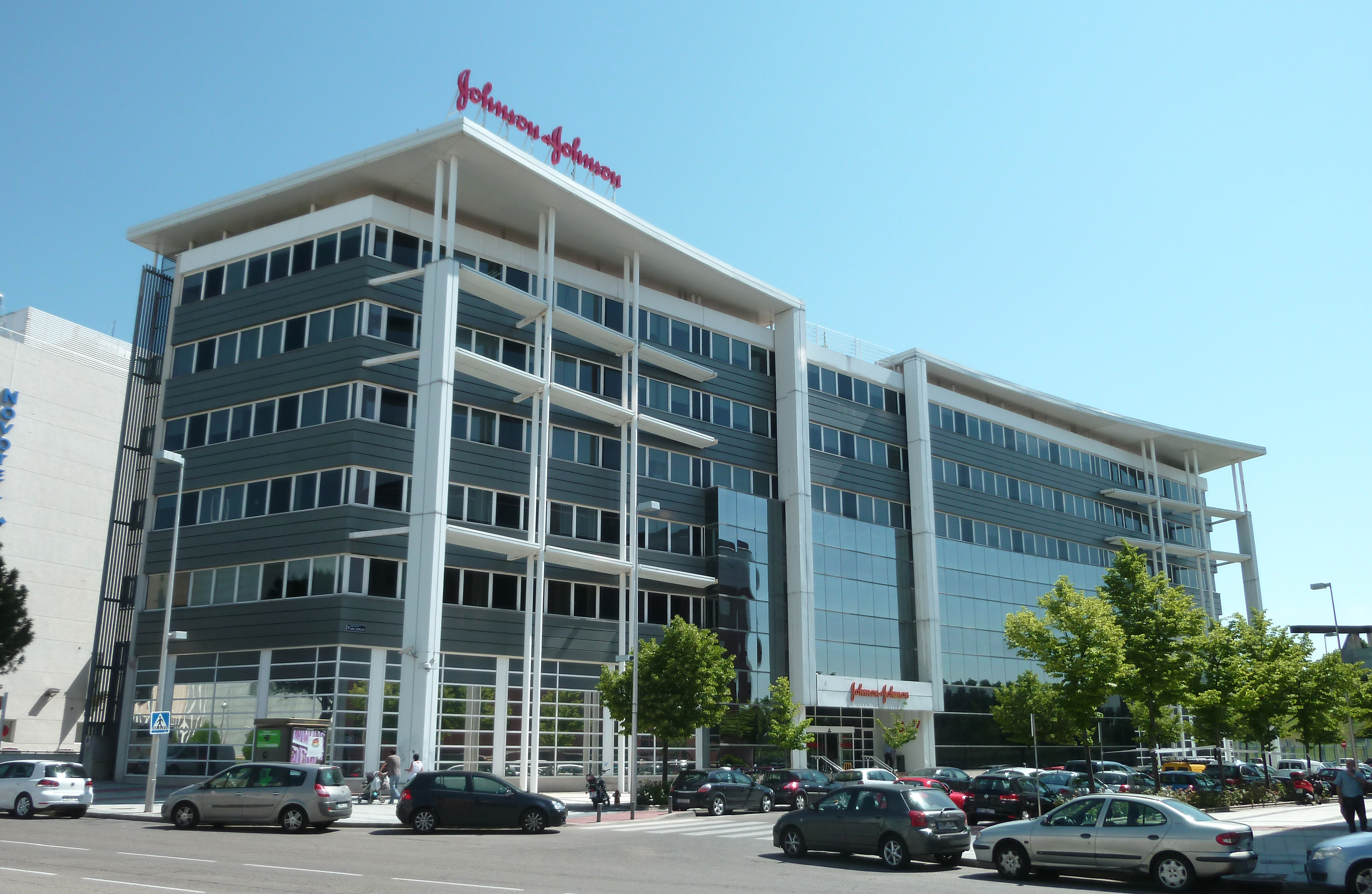 View of Johnson & Johnson offices in Madrid (Spain), at 5-7 Paseo de las Doce Estrellas (street) in Campo de las Naciones.